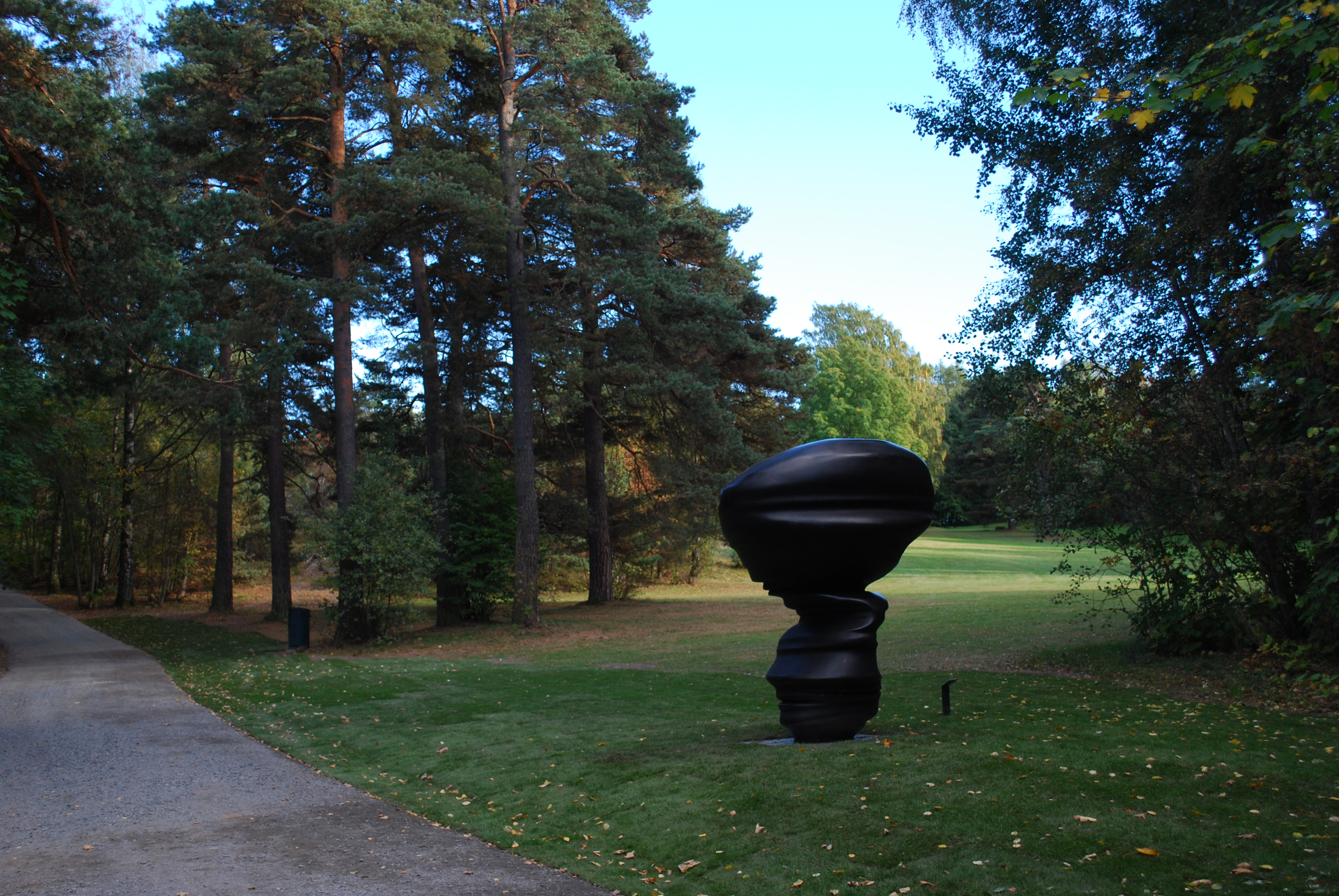 The sculpture park Ekebergparken, Oslo, open park landscape with the sculpture "Cast Glances" by Tony Cragg, 2002